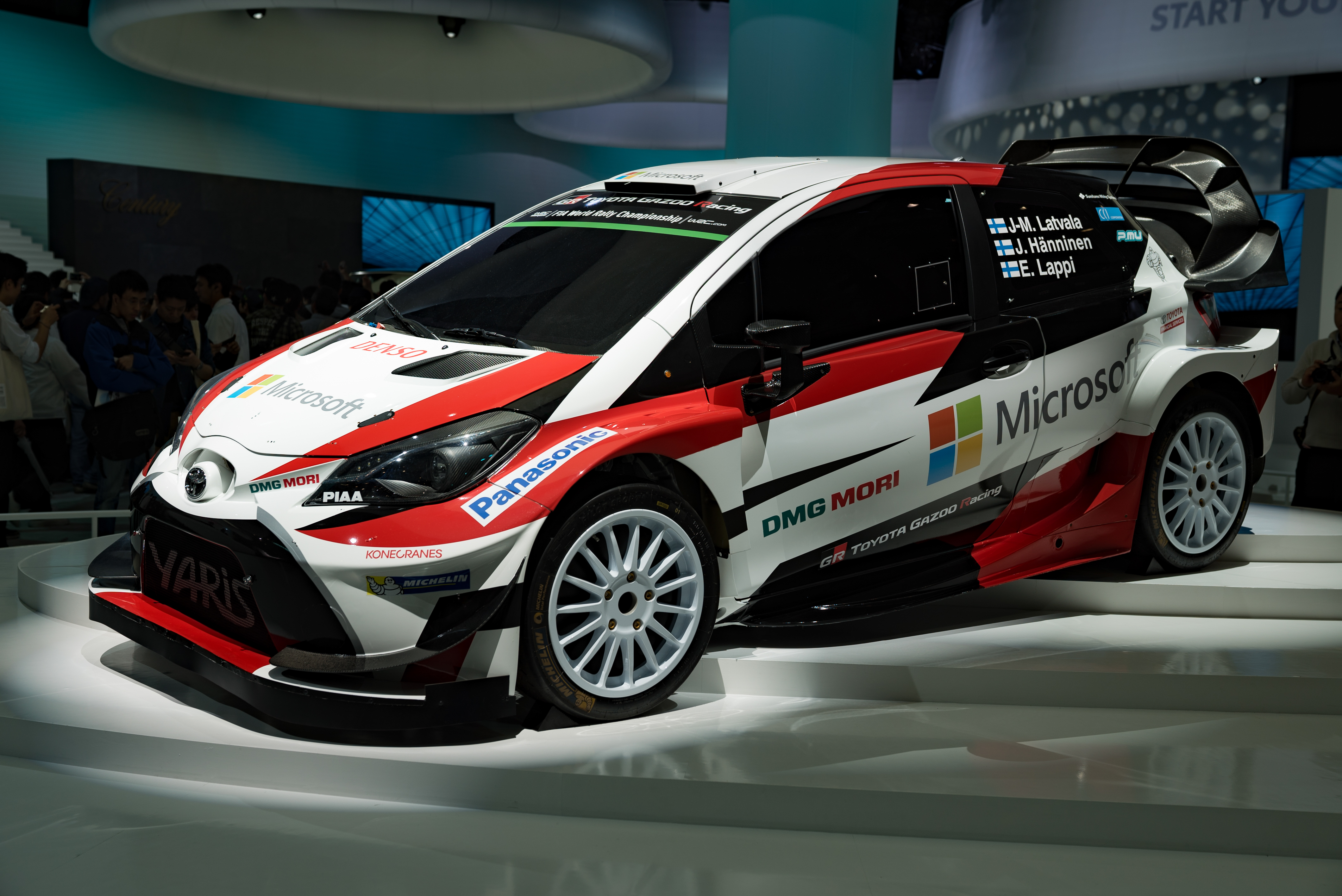 The 45th Tokyo Motor Show 2017-16.jpg